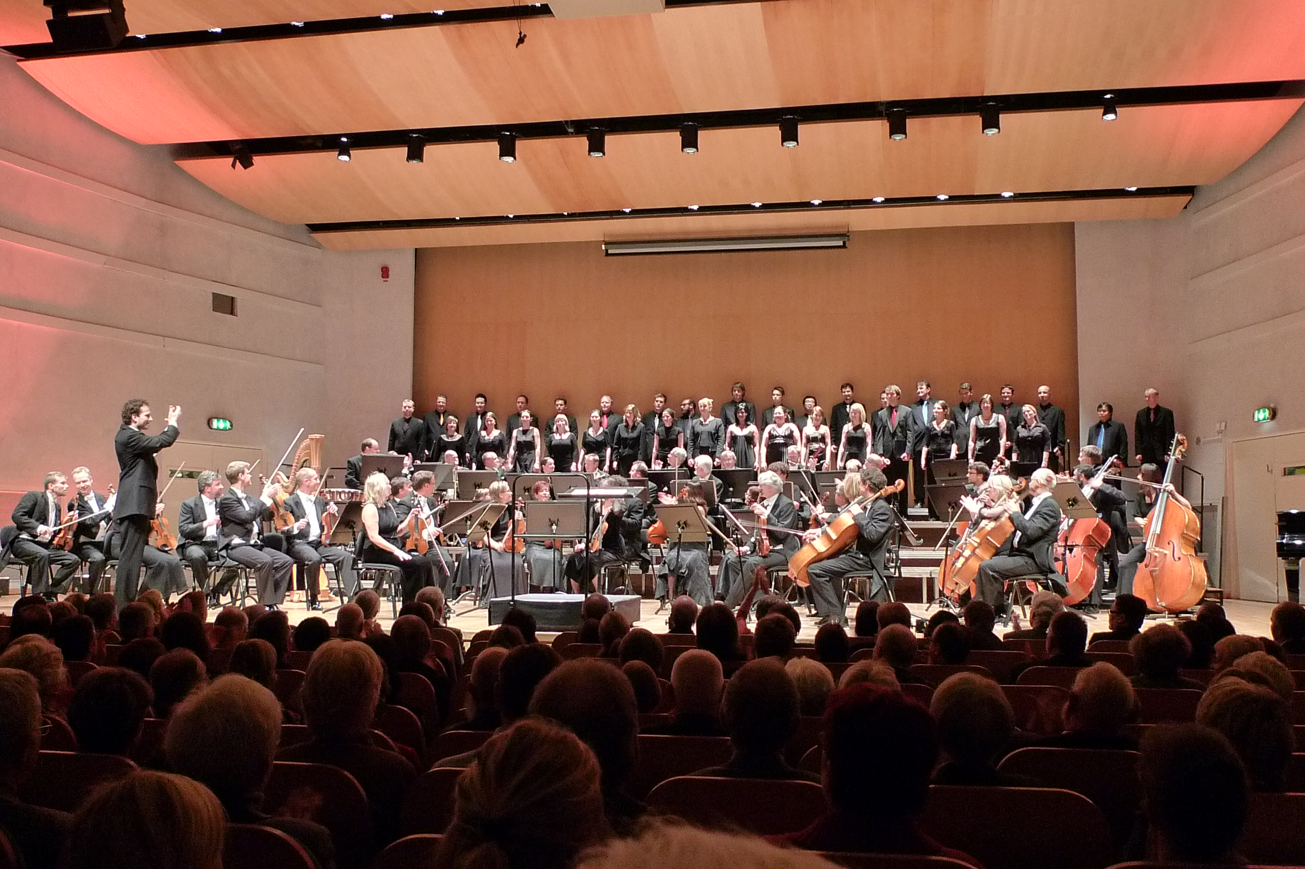 Concert evening at the Concert Hall, Örebro, Sweden